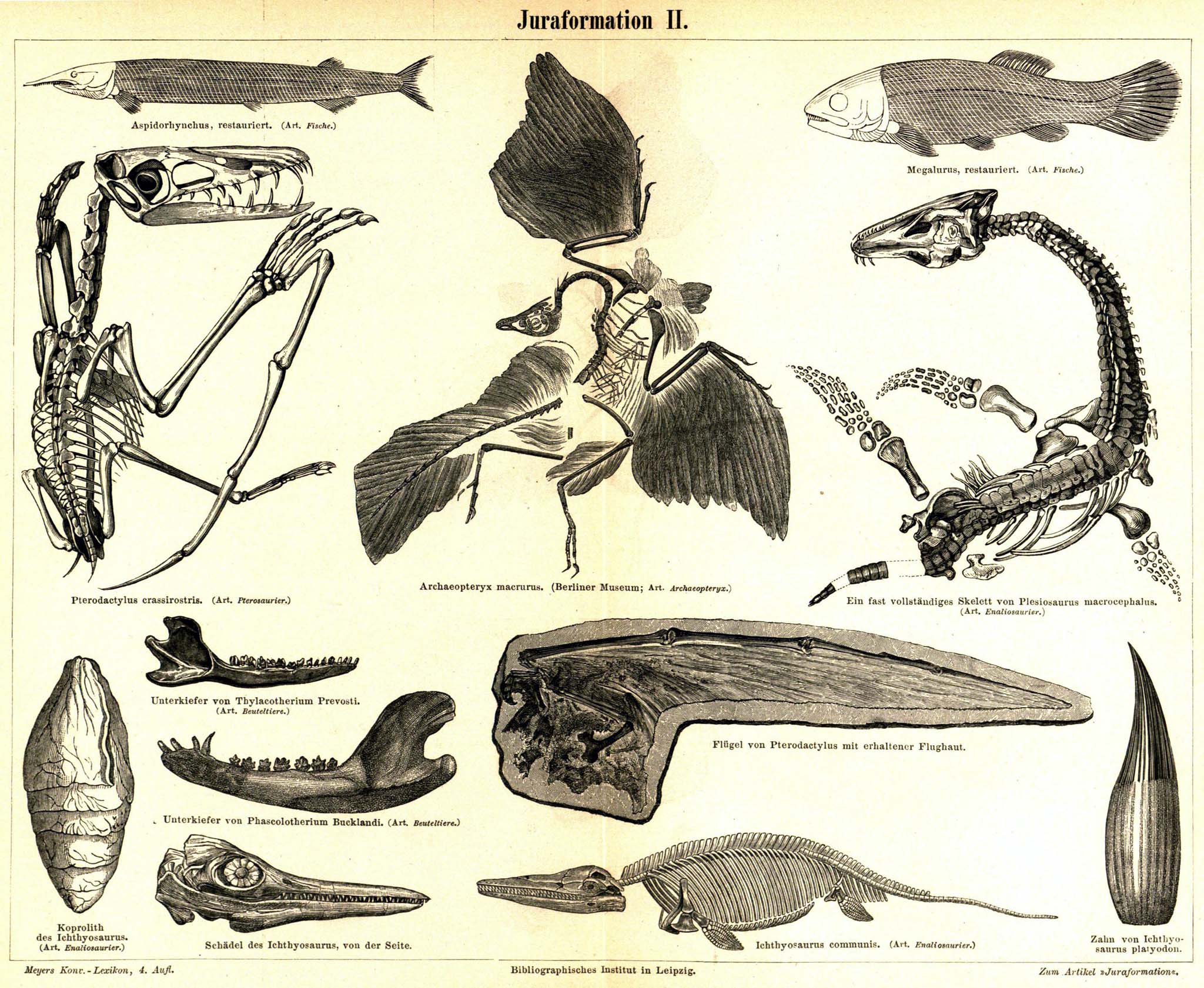 Selected vertebrate fossils from marine and terrestrial deposits of the Jurassic age